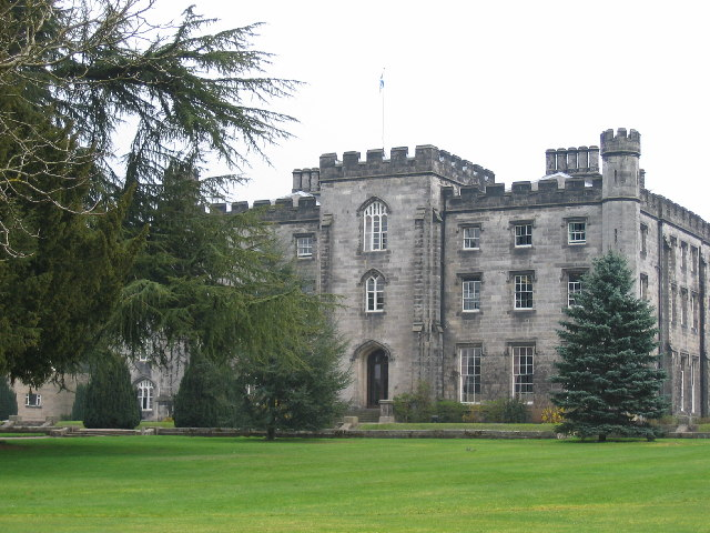 Tulliallan Castle, near Kincardine on Forth